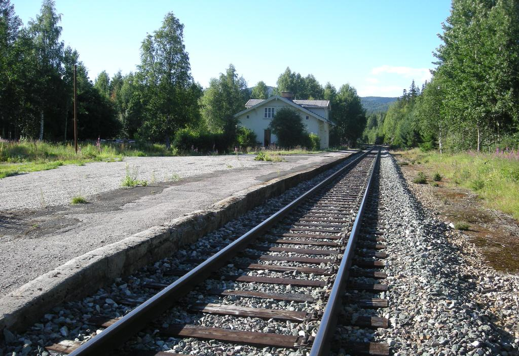 Rasta station on the Røros line